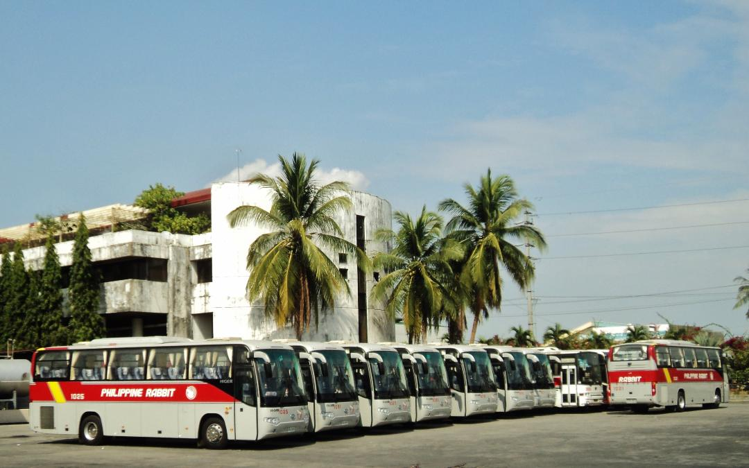 PRBL Higer Bus at Tarlac Terminal